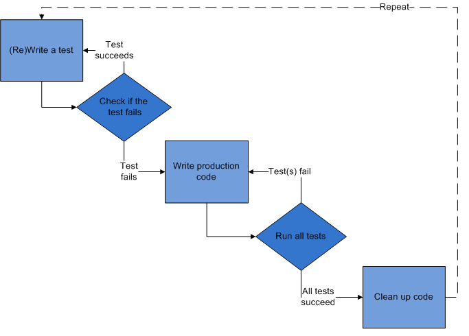 A quick overview of the Test-driven development lifecycle.